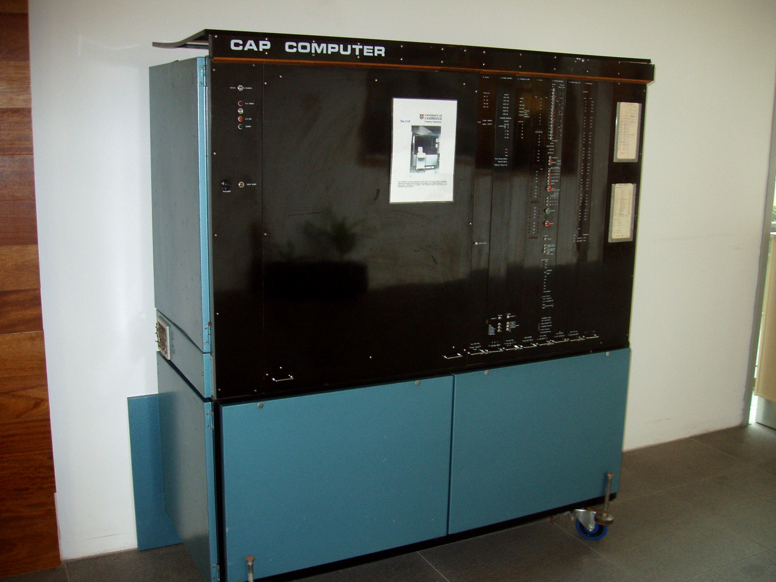 CAP Computer, general view.